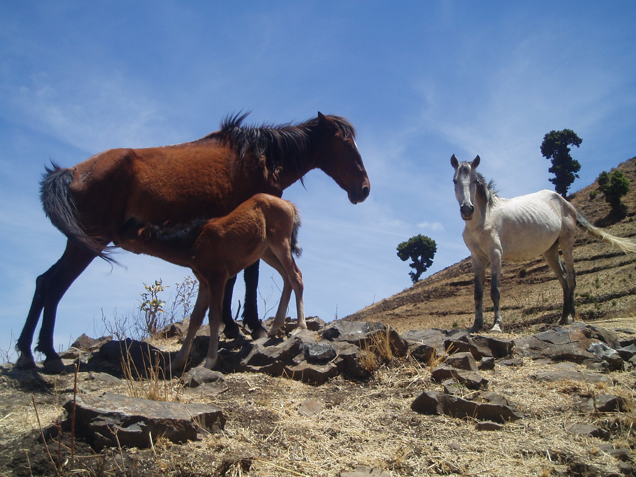 a part of the remnant feral horse pack of Mt. Kundudo, Eastern Ethiopia. Two mares, about ten years old and a colt, three months. Probably the most isolated and reduced feral horse group of documented ancient origin in the world. Three trees in the background, Aphrocarpus gracilior from an original 9,000 hectares forest, cut around 1994. Taken on the north slope of Mt. Kundudo, East Hararghe